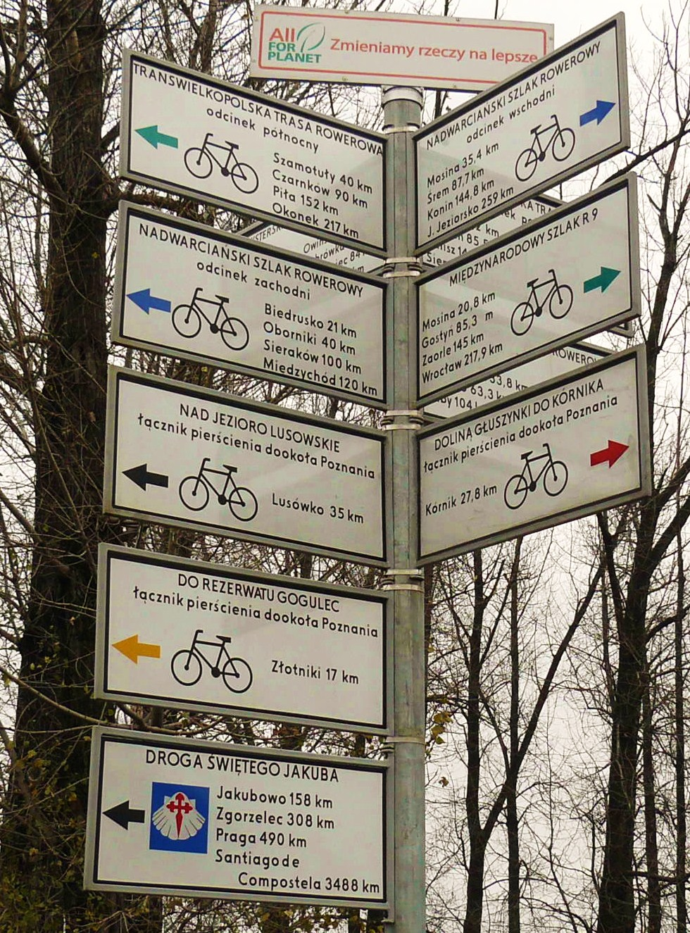 Poznan Bike Junction - Baraniaka Street.